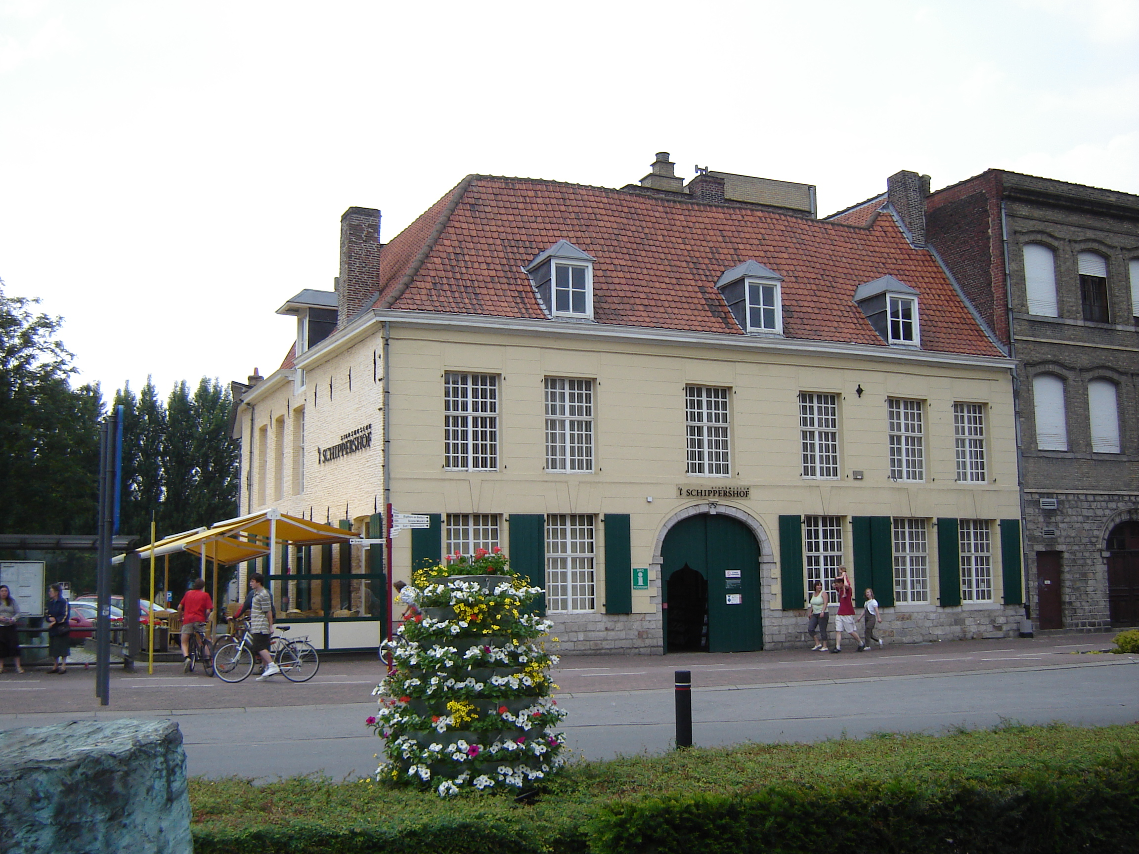 Het Schippershof, Menen. Voormalige 17de eeuwse herberg, nu stadsmuseum en toeristische dienst Het Schippershof in Menen. Former 17th century inn, nowadays the city museum and tourist information centre. Menen, West Flanders, Belgium